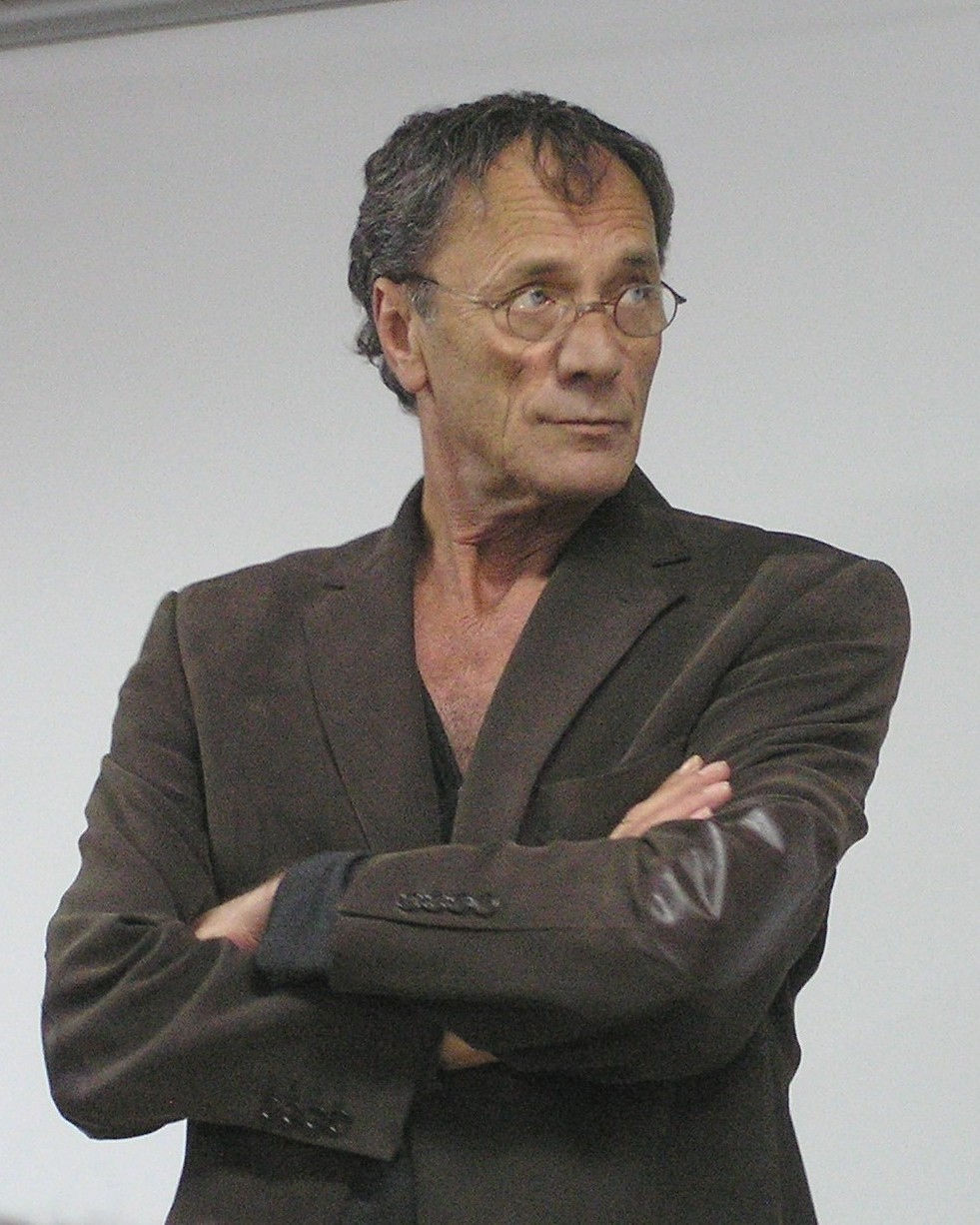 Mohammad Bakri; image taken at the screening of "Zahara" at the Multaka club in Be'er Sheva